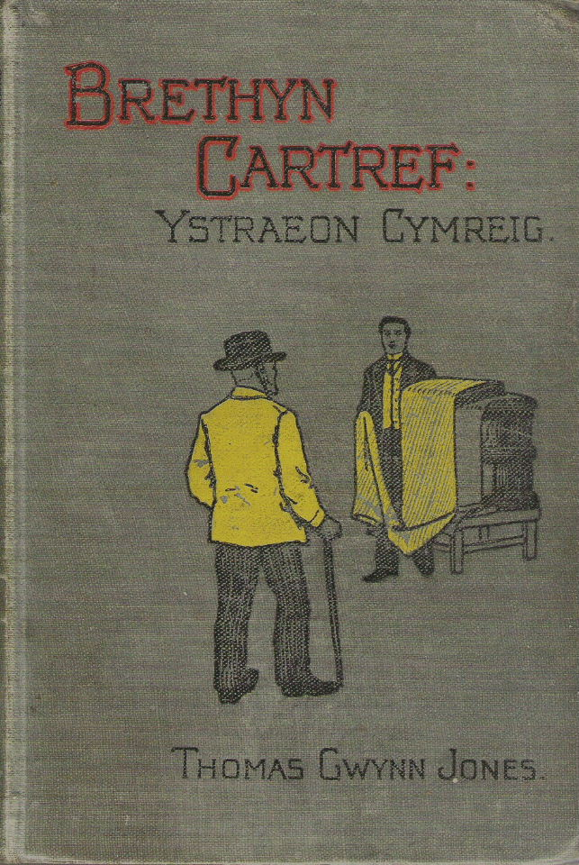 Illustrated front cover of Brethyn Cartref (Caernarfon, 1913), a collection of Welsh-language short stories by T. Gwynn Jones